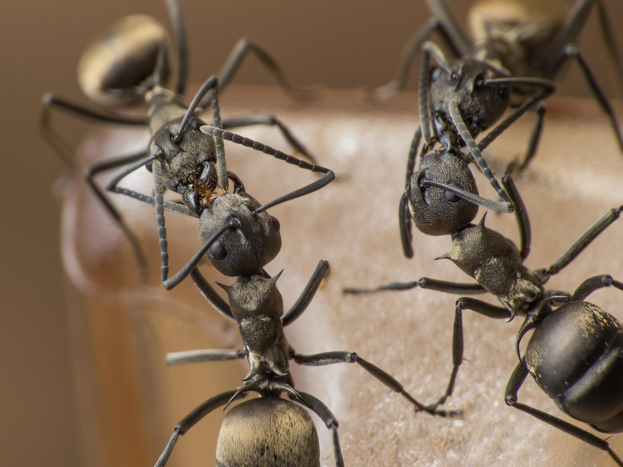 Workers of species Polyrhachis dives exchange food (Trophallaxis).